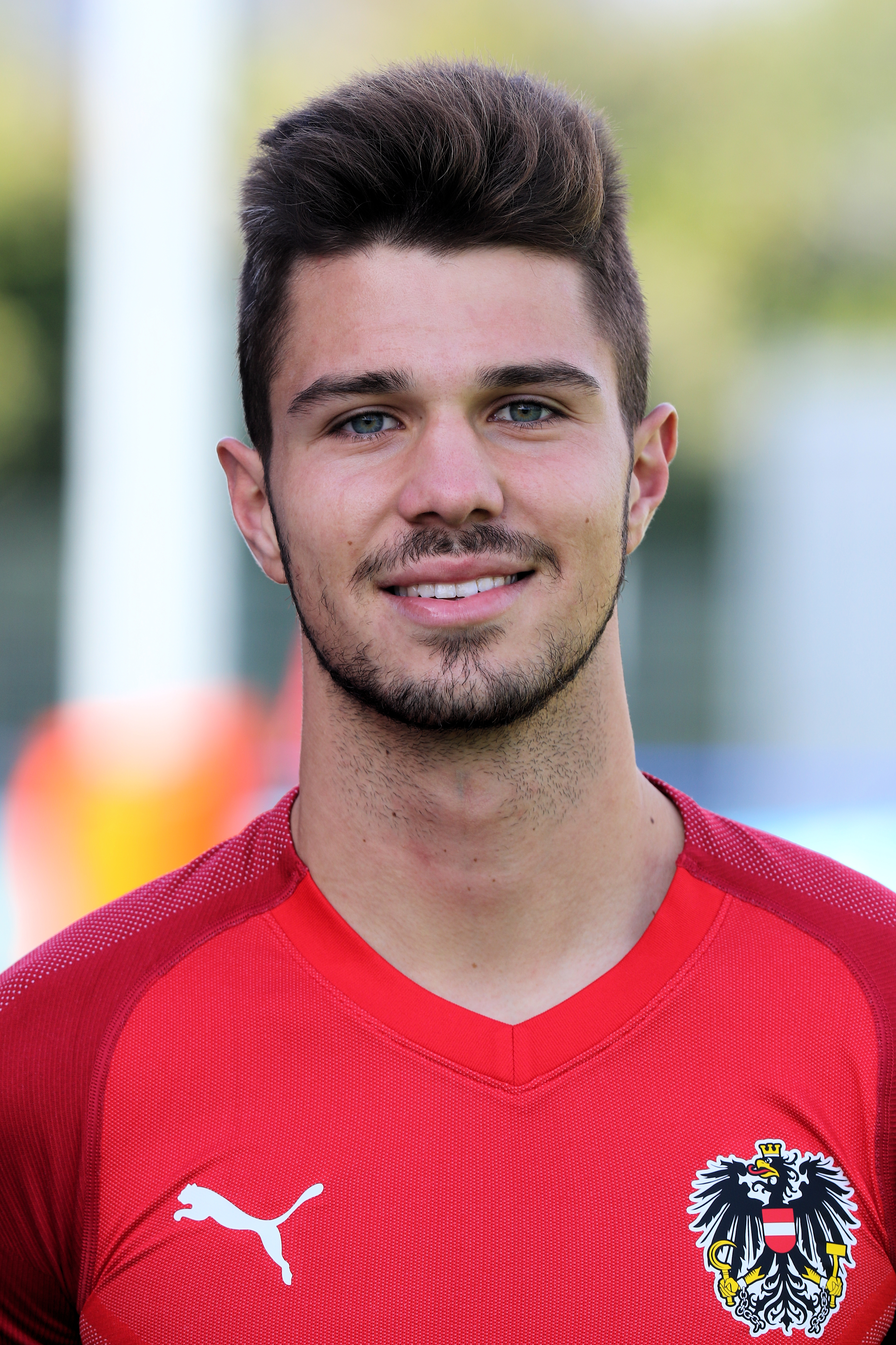 Teamcamp of the Austria national under-21 football team October 2019 in Bad Erlach – The photo shows Luca Meisl (SKN St. Pölten).